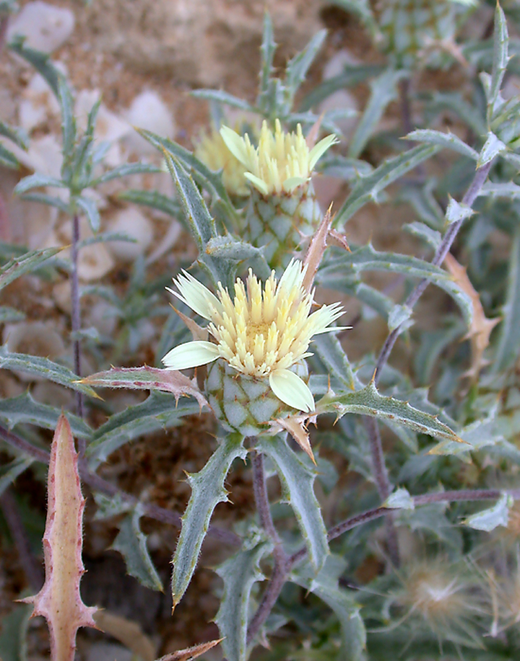 Atractylis carduus (Forssk.) C.Chr. (חורשף צהוב), Carmel beach, Israel, July 2006.